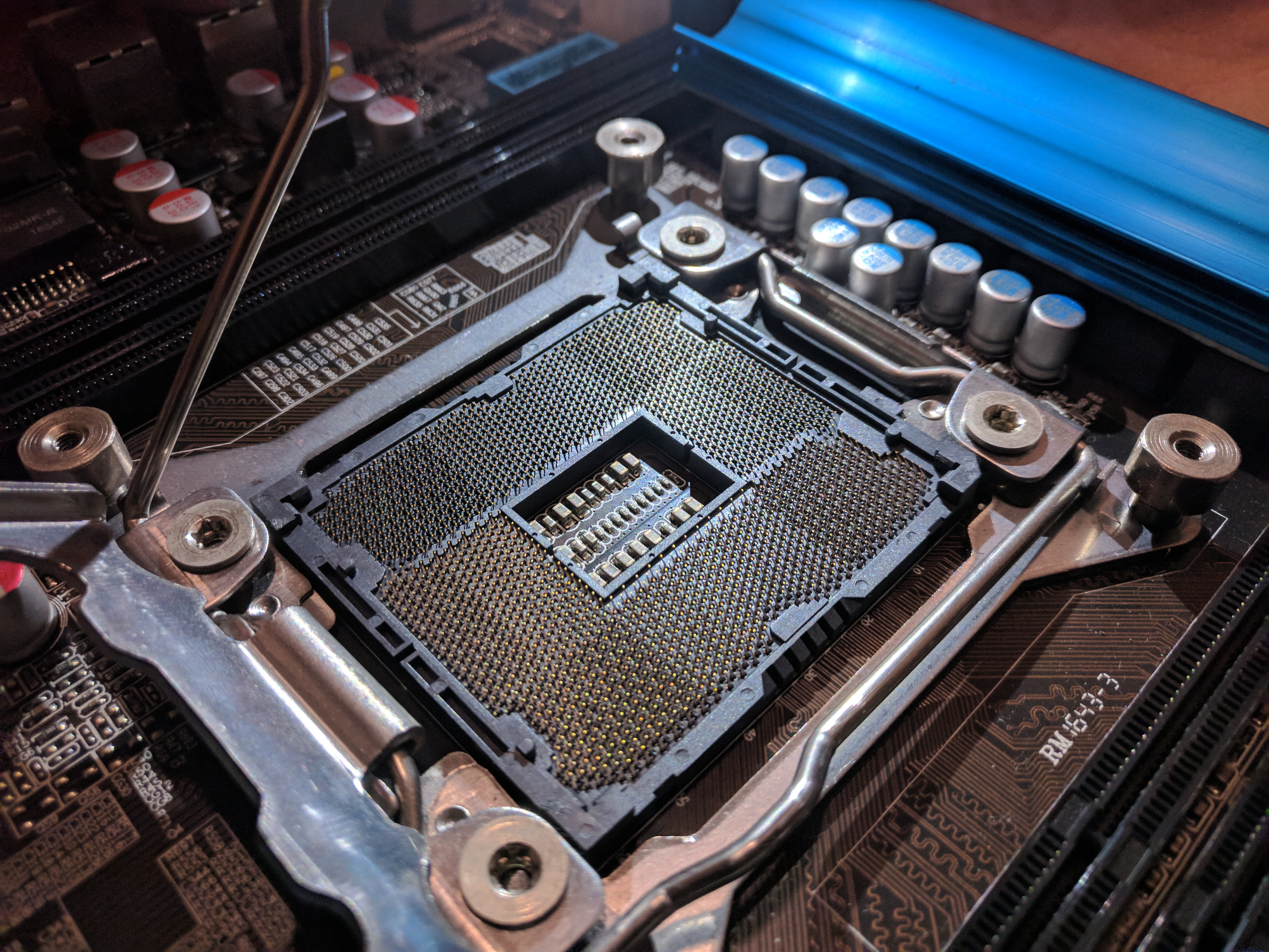 Intel Socket R (LGA 2011-0), cover opened.